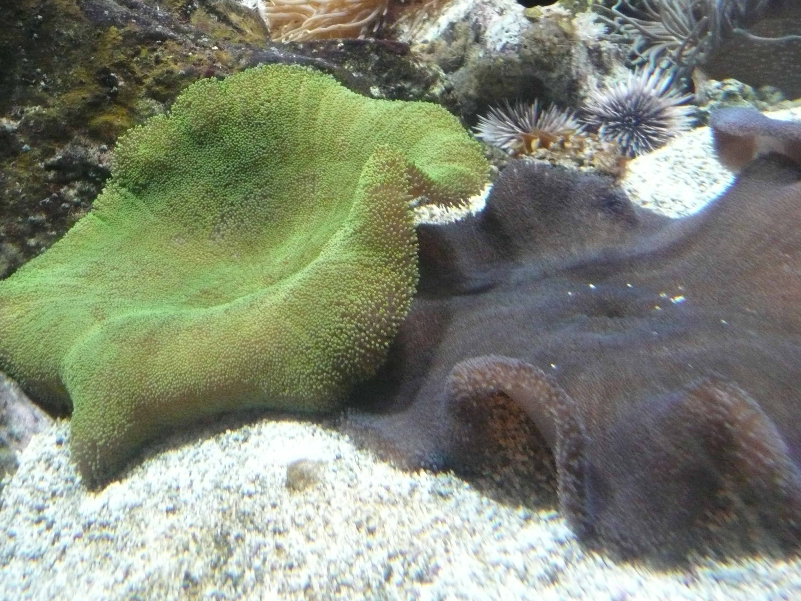 Stichodactyla haddoni in the Aquarium de La Rochelle